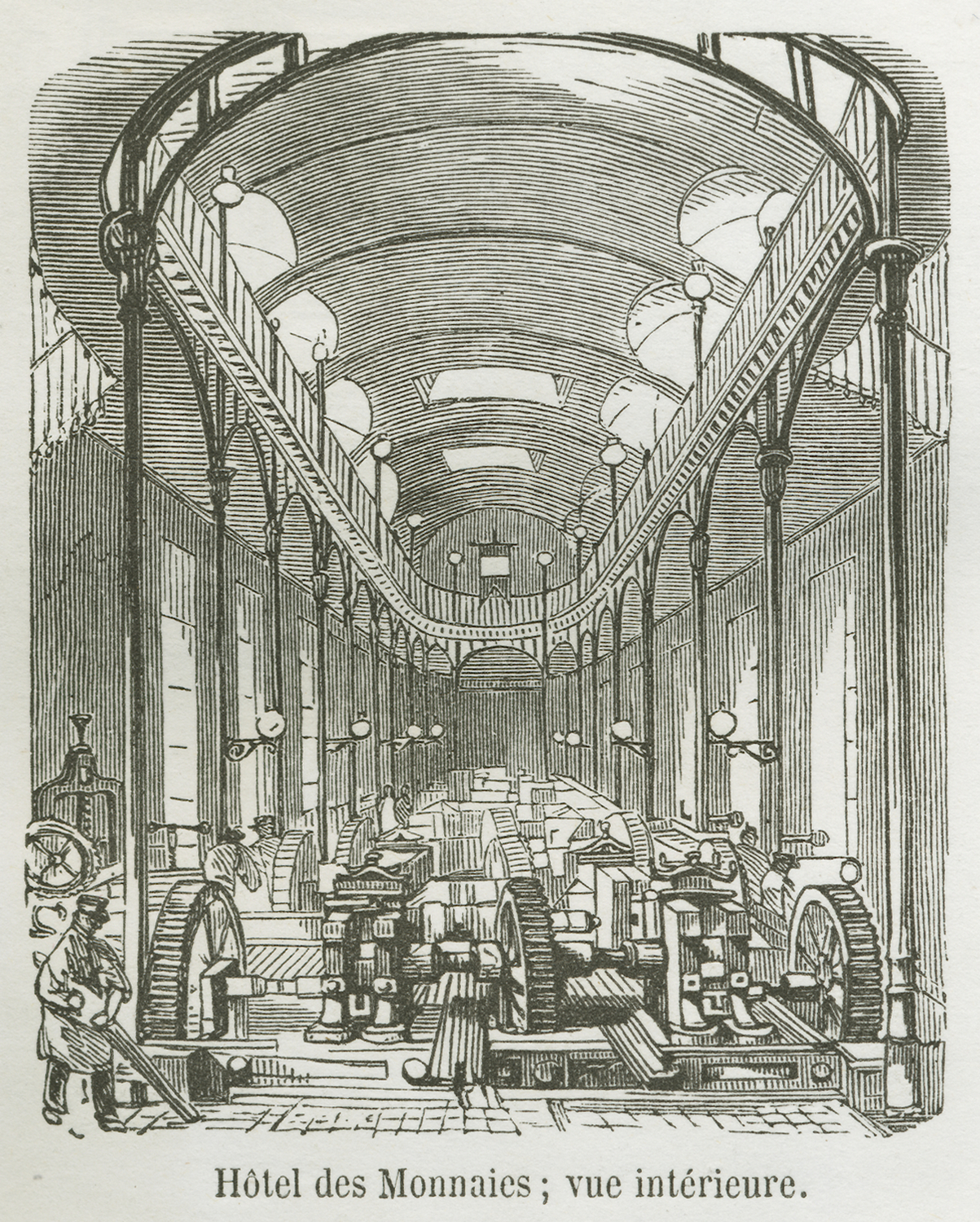 A view of the interior of the Hôtel des Monnaies, Paris.